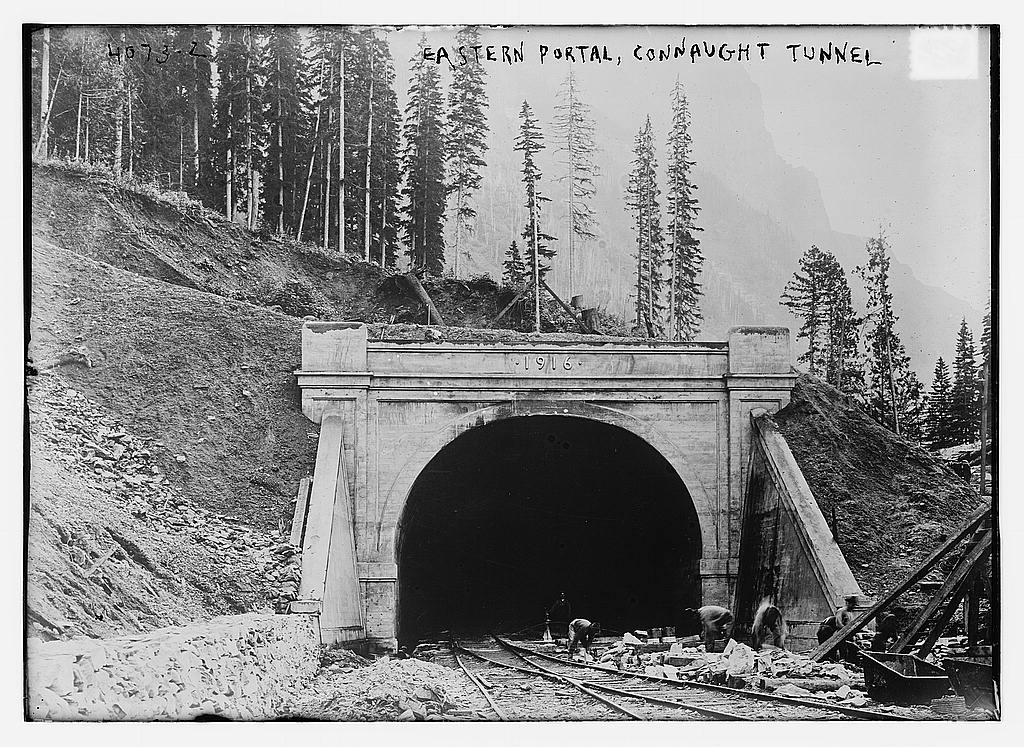 Eastern entrance to the Connaught Tunnel (British Columbia) in 1916